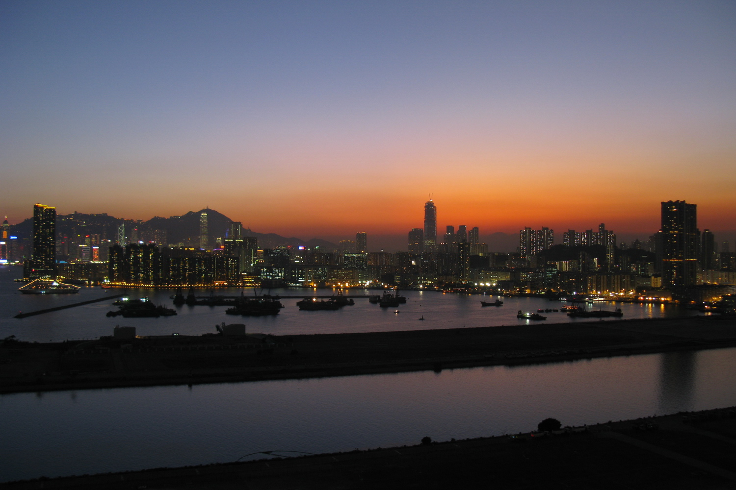 Kowloon Peninsula at dusk